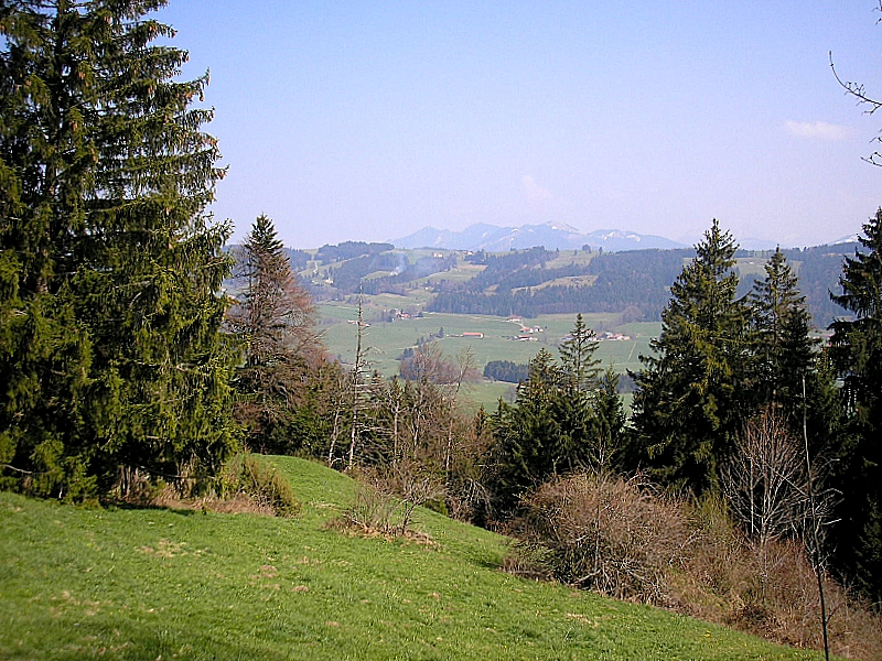 Rettenberg (Vorderburg) castle (Landkreis Oberallgäu, Bavaria, Germany). View to the east